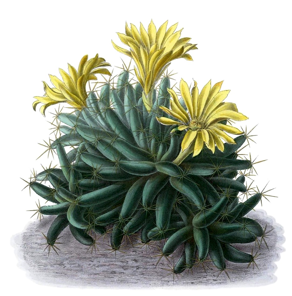 Mammillaria longimamma